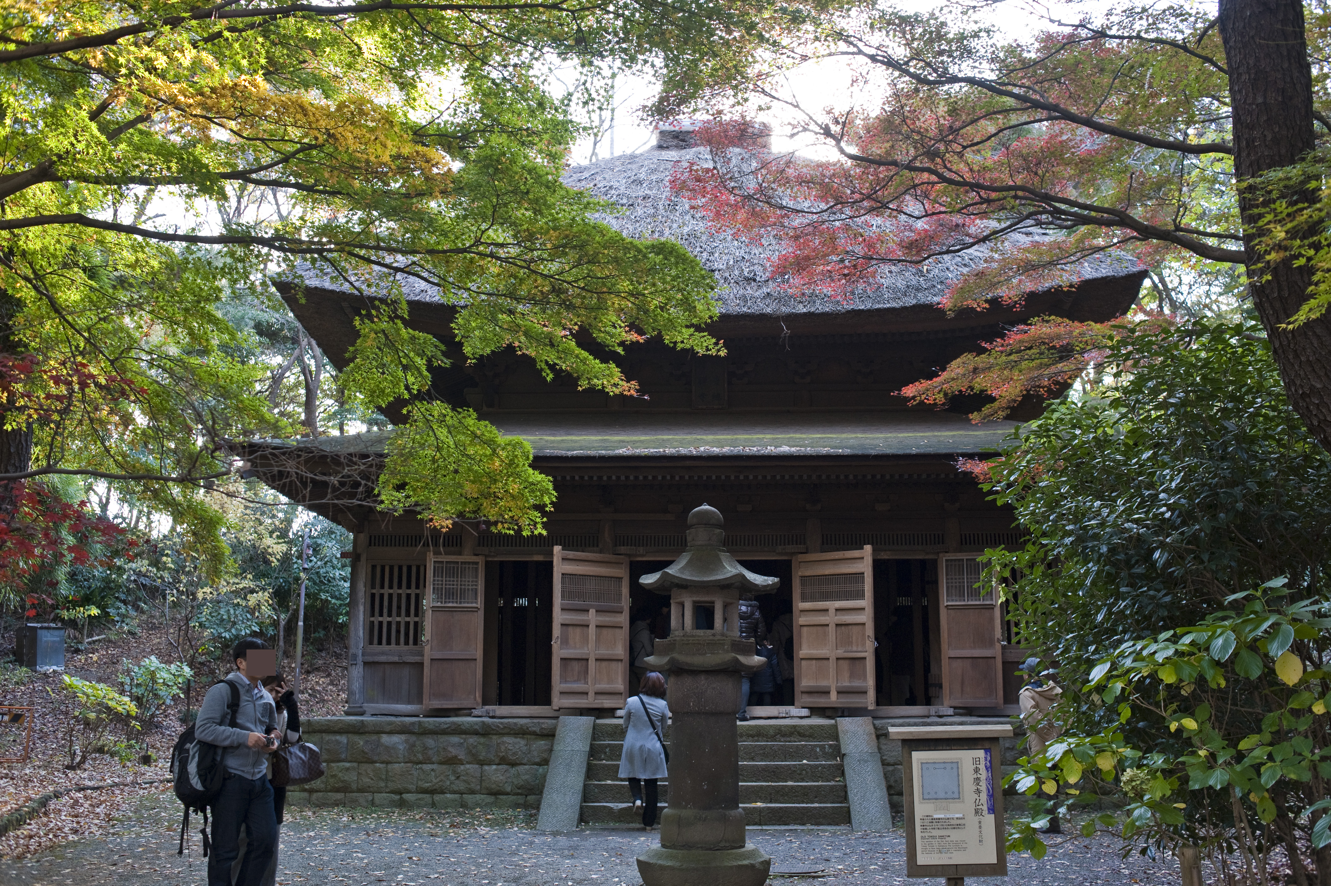 Tōkei-ji's former butsuden at Sankeien Park, Yokohama, Japan